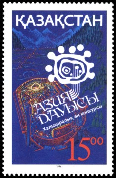 Stamp of Kazakhstan